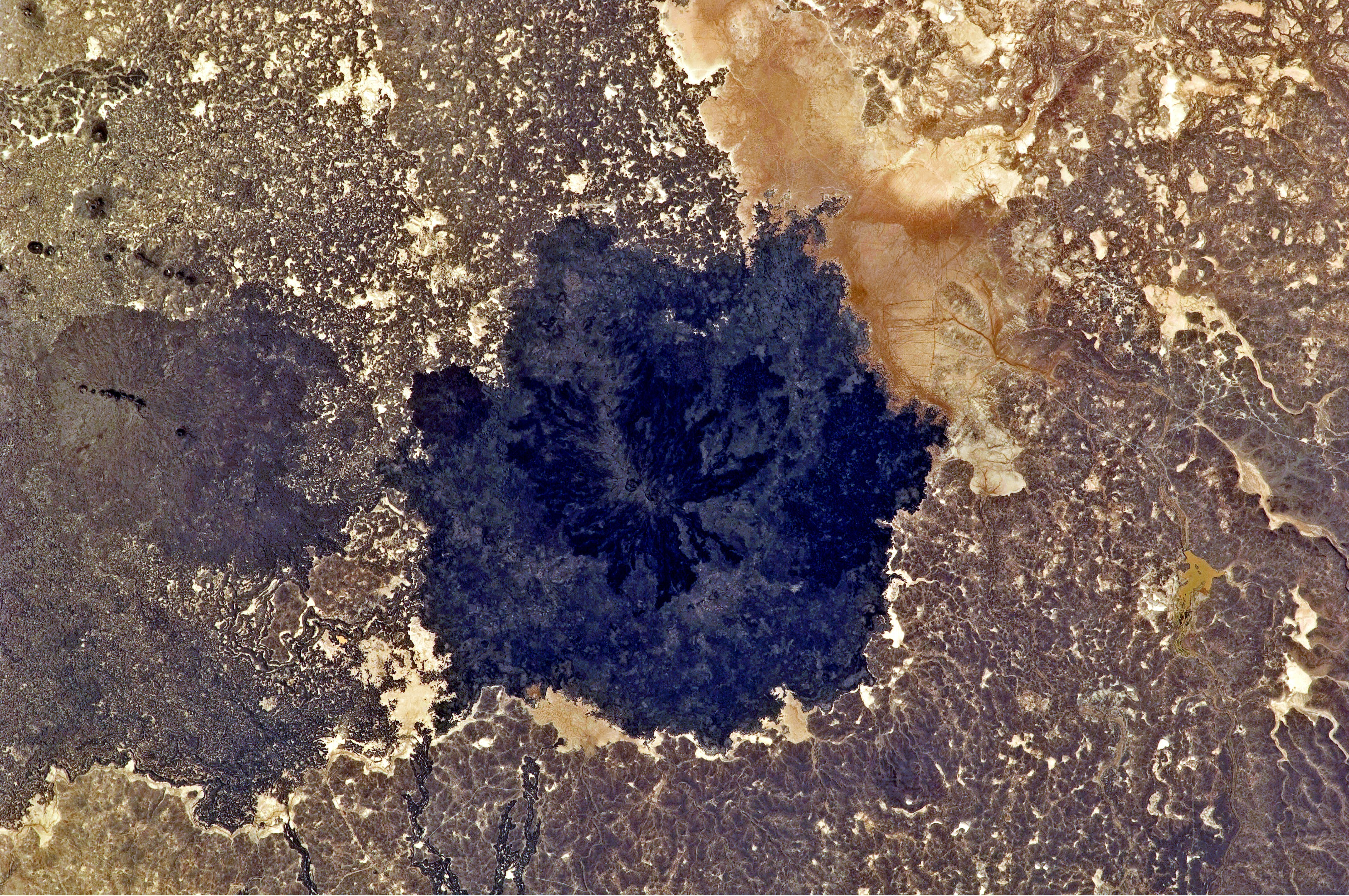 Es Safa Volcanic Field — Es Safa is a striking basaltic volcanic field located to the south-east of Damascus, western Syria. Es Safa contains numerous vents that have been active during the Holocene Epoch (beginning approximately 12,000 years ago). The most recent recorded activity was a boiling lava lake observed in the area around 1850. The dark lava flow field (centre) likely represents the latest activity of the volcanic field, and is emplaced over older, lighter coloured flows. The older flow surfaces also have light tan sediment accumulating in shallow depressions, in contrast to the relatively pristine surfaces of the darker, younger flows. Cinder cones are scattered throughout the Es Safa field, but many are aligned along north-west south-east trends that likely indicate faults through which magma rose to the surface. Two such alignments are visible at image left. To the south-east (image right) a small reservoir feeds water distribution ditches extending northwards.